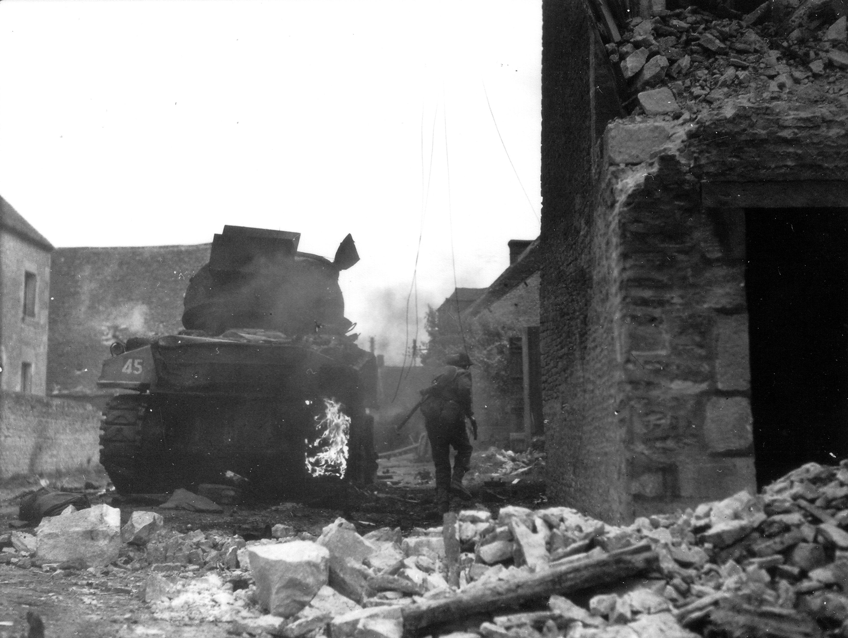 Soldier of Argyll & Sutherland Highlanders (4th Canadian Armoured Division) passing a destroyed Canadian tank in St. Lambert sur Dive